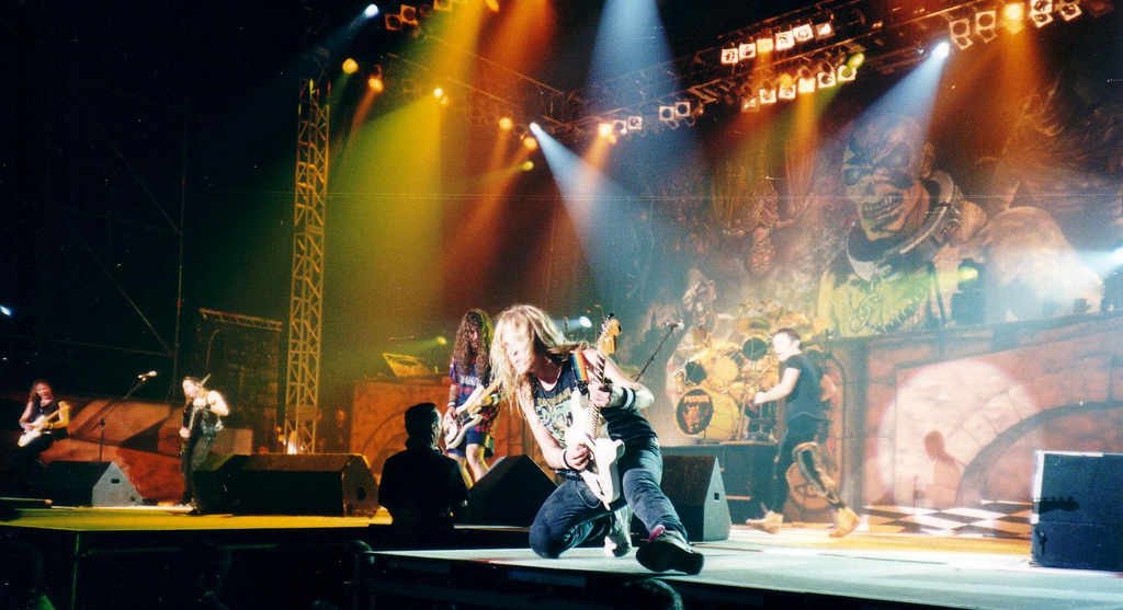 Iron Maiden during Ed Hunter tour